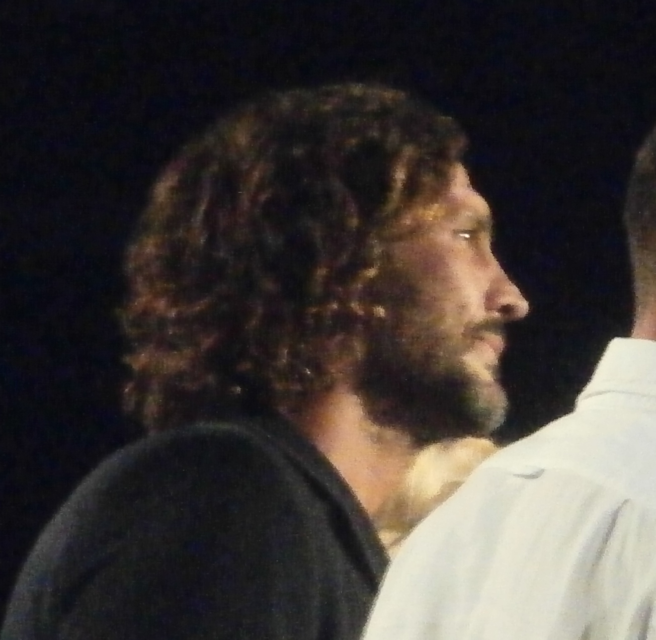 Konstadinos Kokkinakis at MAD Video Music Awards 2017.